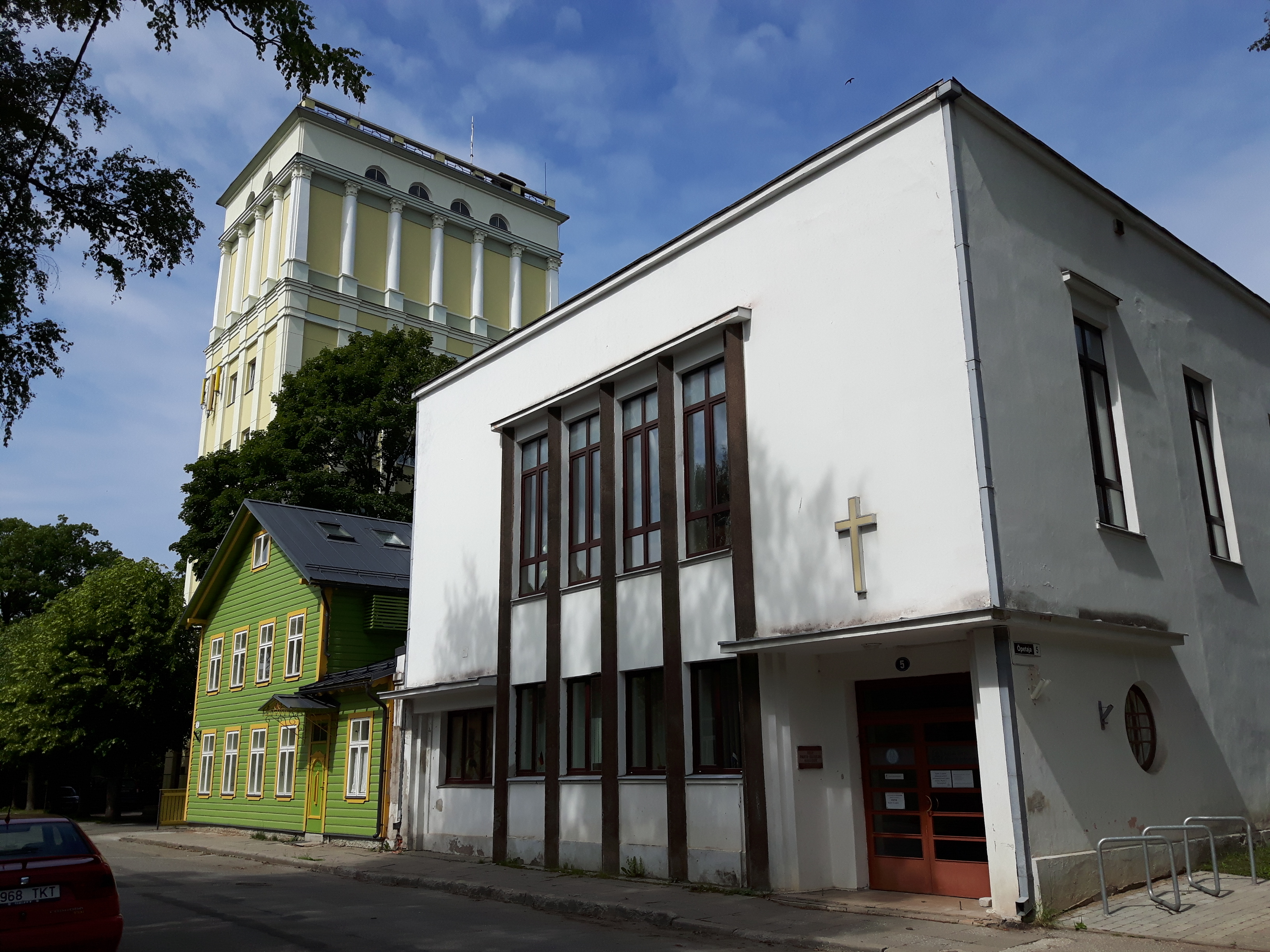 Buildings on Õpetaja 9, 7, and 5, Tartu, seen from the street. The building on Õpetaja 5 (closest) belongs to the parish of St Mary of the Estonian Evangelical-Lutheran church.